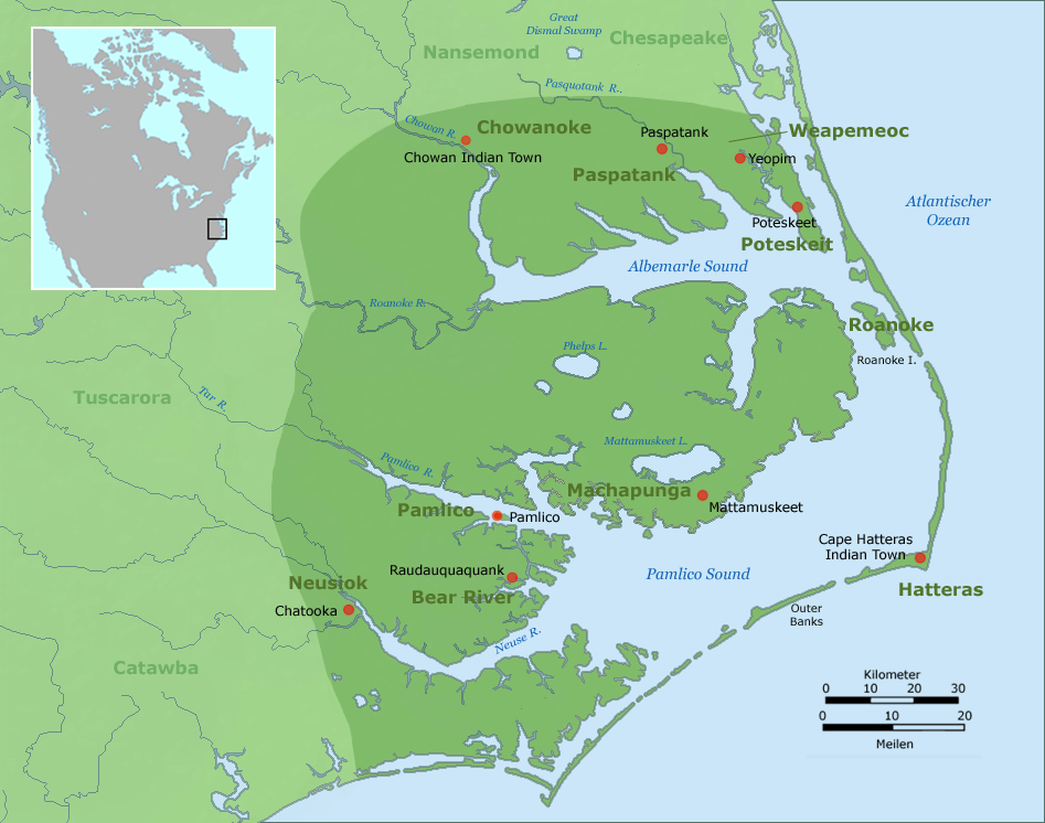 Tribal territories of the North Carolina Algonquins, 1657-1795